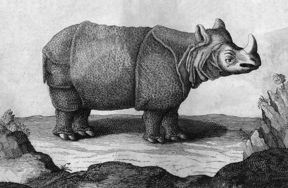 rhinoceros in Iran 1670s